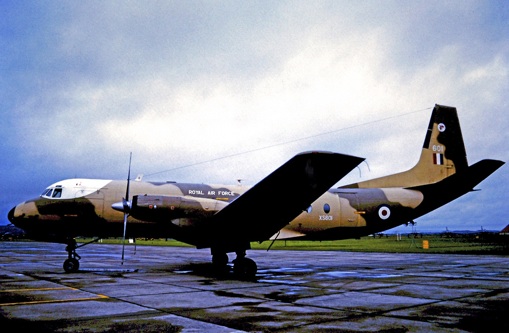 Hawker Siddeley HS.780 Andover C.1 XS601 of 46 Squadron at RAF Chivenor in 1971